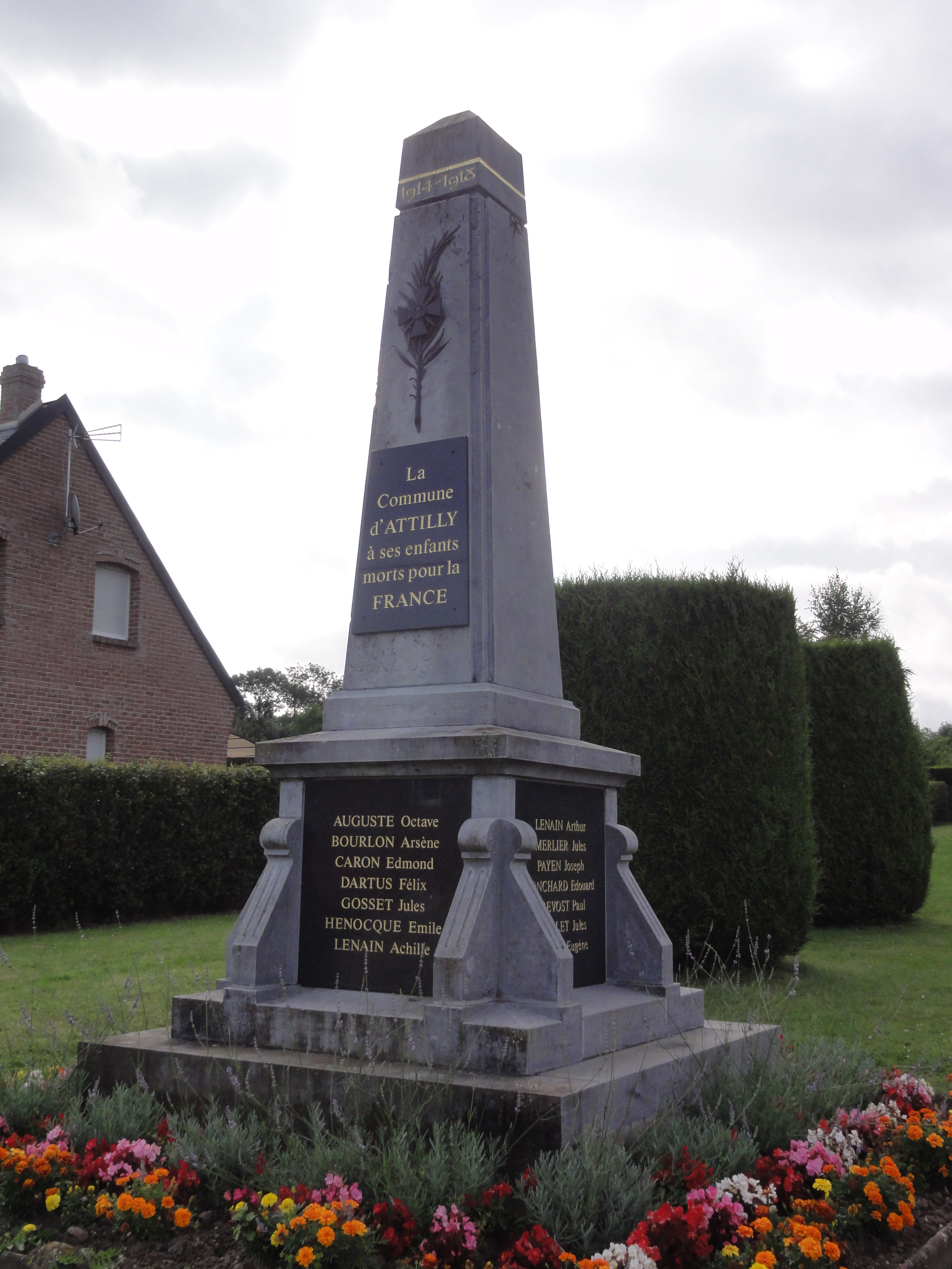 Attilly (Aisne) monument aux morts